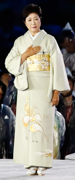 Tokyo's governor Yuriko Koike at the 2016 Summer Olympics.